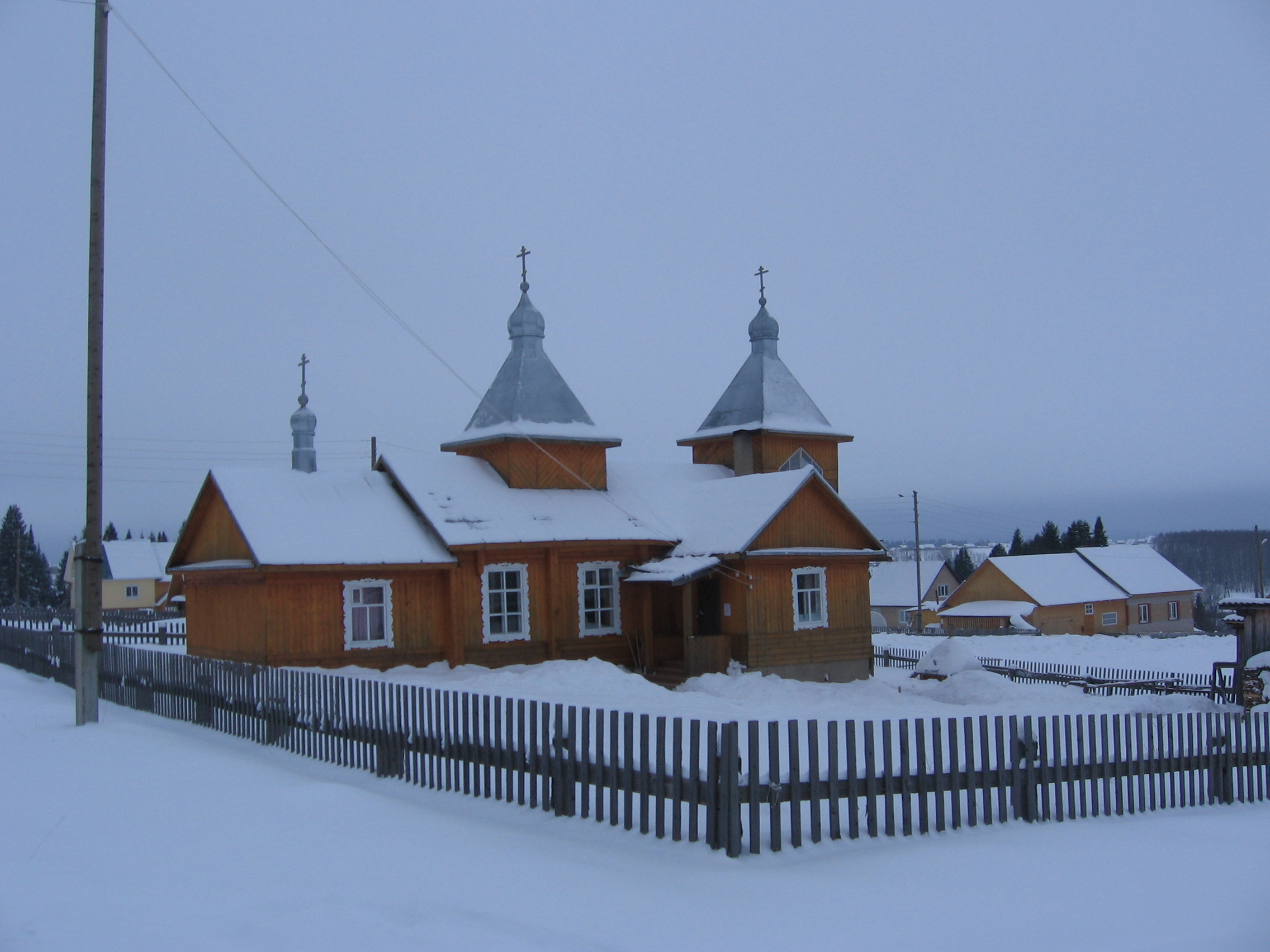 Peter and Paul Church in Afanasievo, Kirov region, Russia